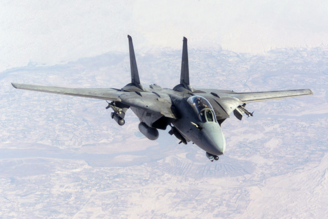 A U.S. Navy Grumman F-14D Tomcat, armed with two AIM-9 Sidewinder missiles, a GBU-10 Paveway II laser guided 907 kg bomb, and LANTIRN Pod, moves in to refuel from a U.S. Air Force KC-10A Extender before proceeding on a bombing mission over Afghanistan in support of Operation "Enduring Freedom" on 7 November 2001.